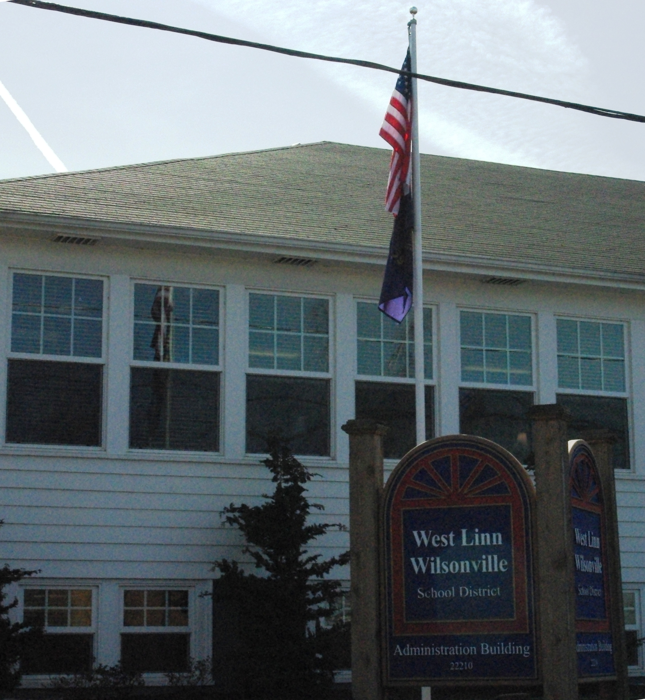 West Linn-Wilsonville School District headquarters in Stafford, Oregon.